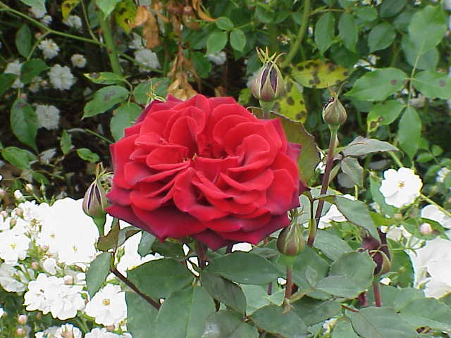 Species: Rosa sp. Family: Rosaceae Cultivar: Mildred Scheel, Tantau 1976 Image No. 198